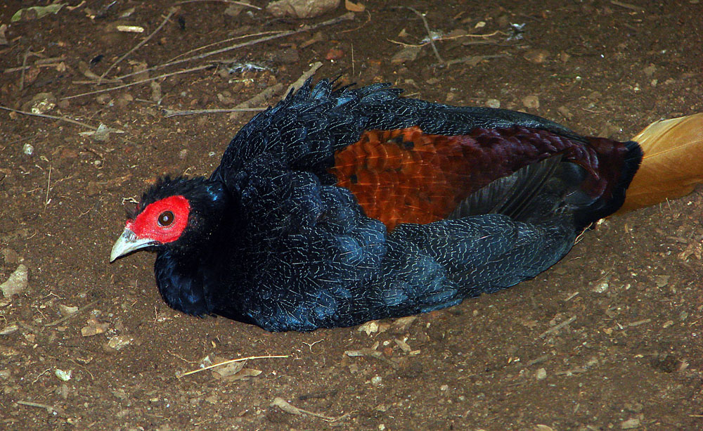 The Malay Fireback Pheasant, a ground bird native to Malaysia, Sumatra and Borneo. Jurong Birdpark, Singapore. In context at